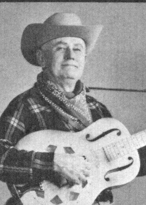 Carl T. Sprague (no copyright notice could be found anywhere on the original source, thus public domain is assumed)